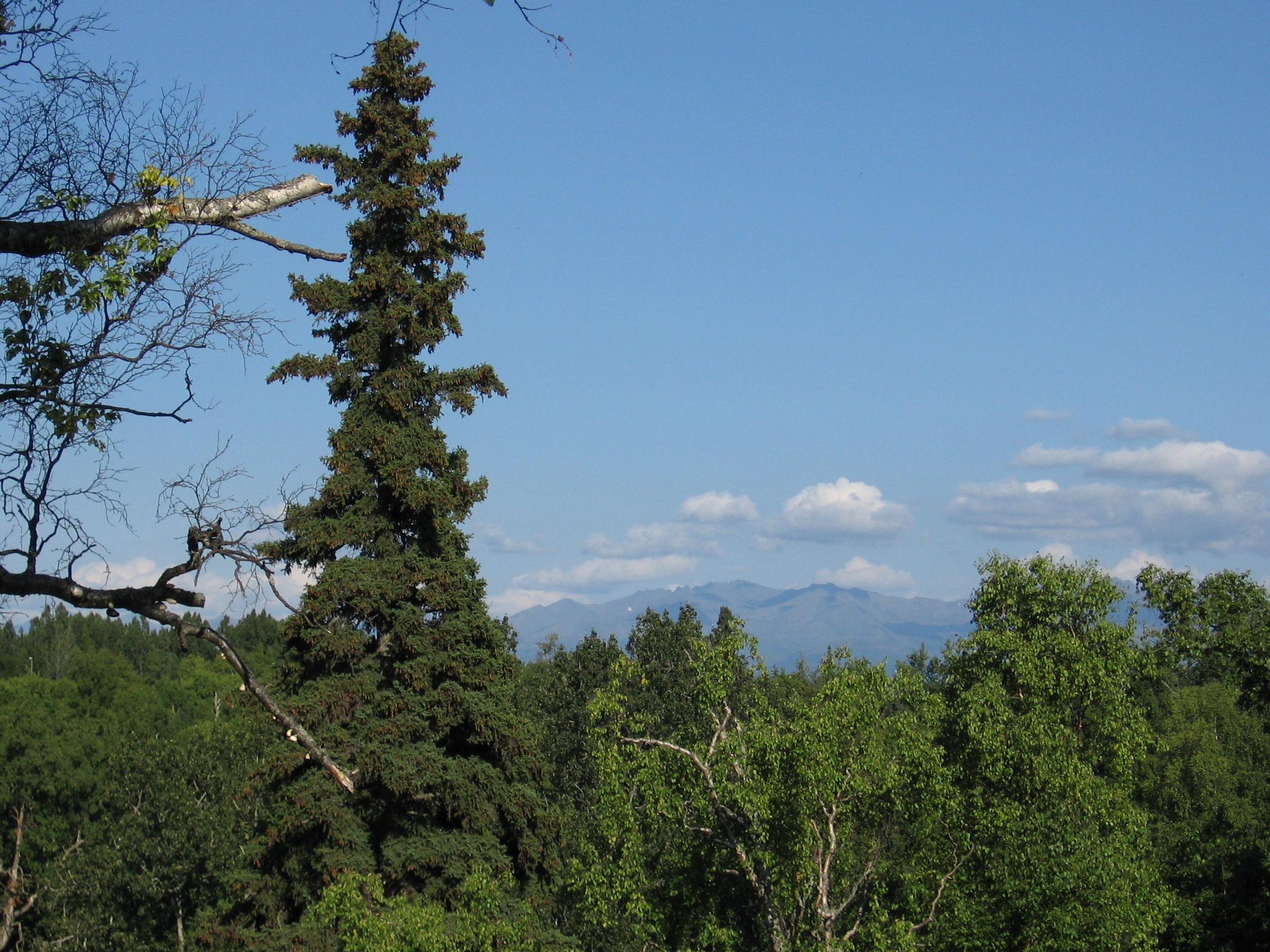 Shot by me at Kincaid Park in Anchorage, Alaska in August 2006.